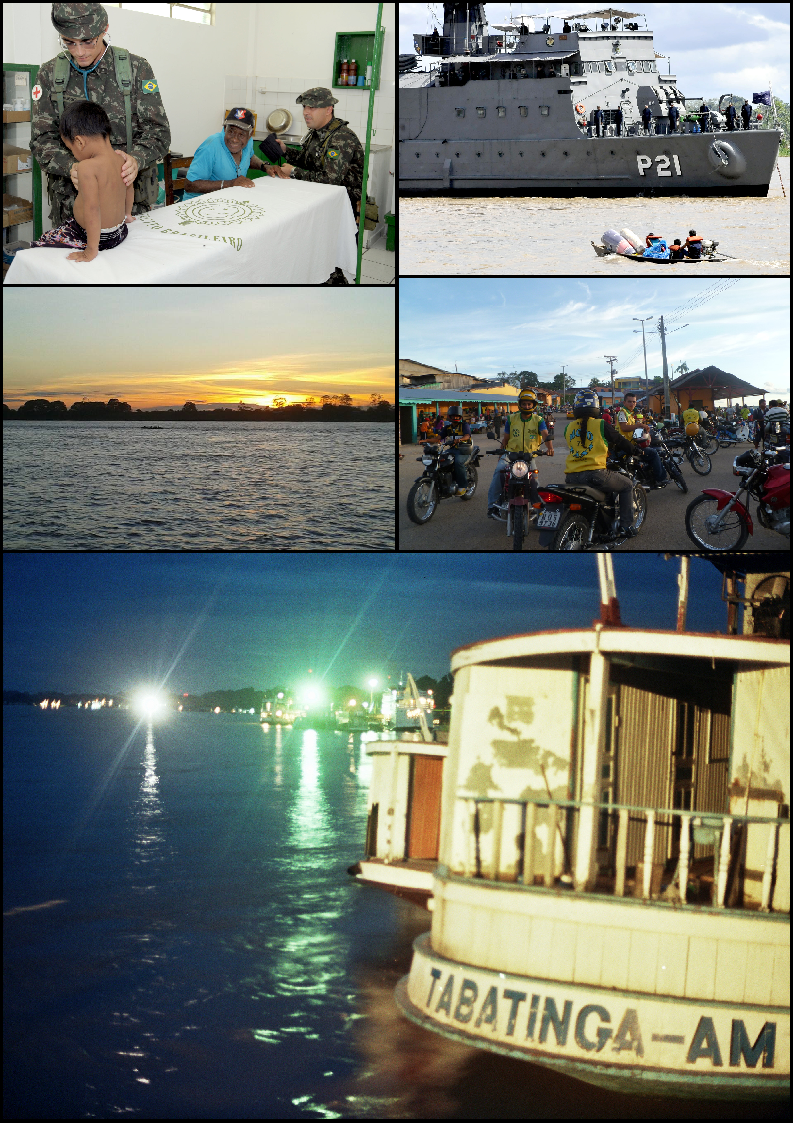 Photomontage of Tabatinga-Amazonas-Brazil